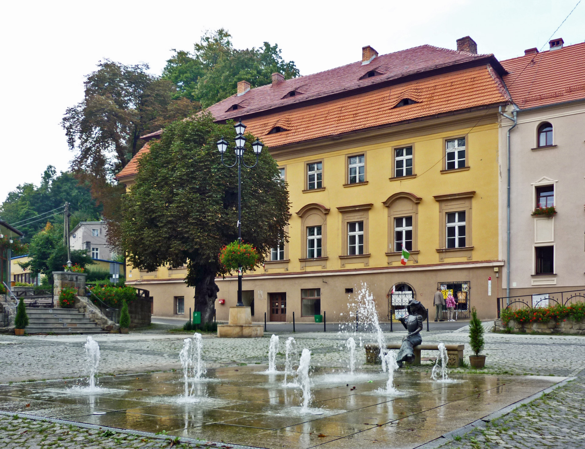 Former Hirschberger Hof Hotel in Jedlina-Zdrój, Poland